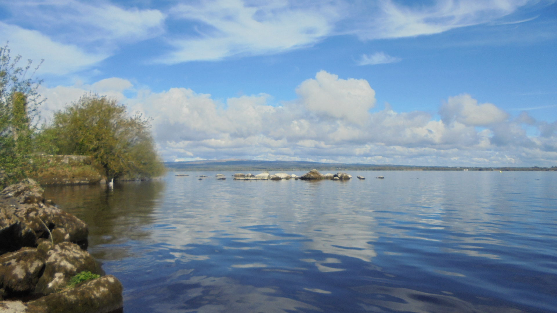 A picture taken from Garrykennedy pier of Lough Derg in April 2020